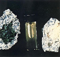 PCP, public domain from